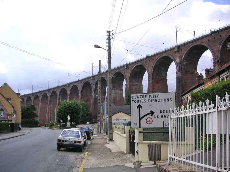 Barentin (Seine-Maritime, France). - Google Maps - Google Earth